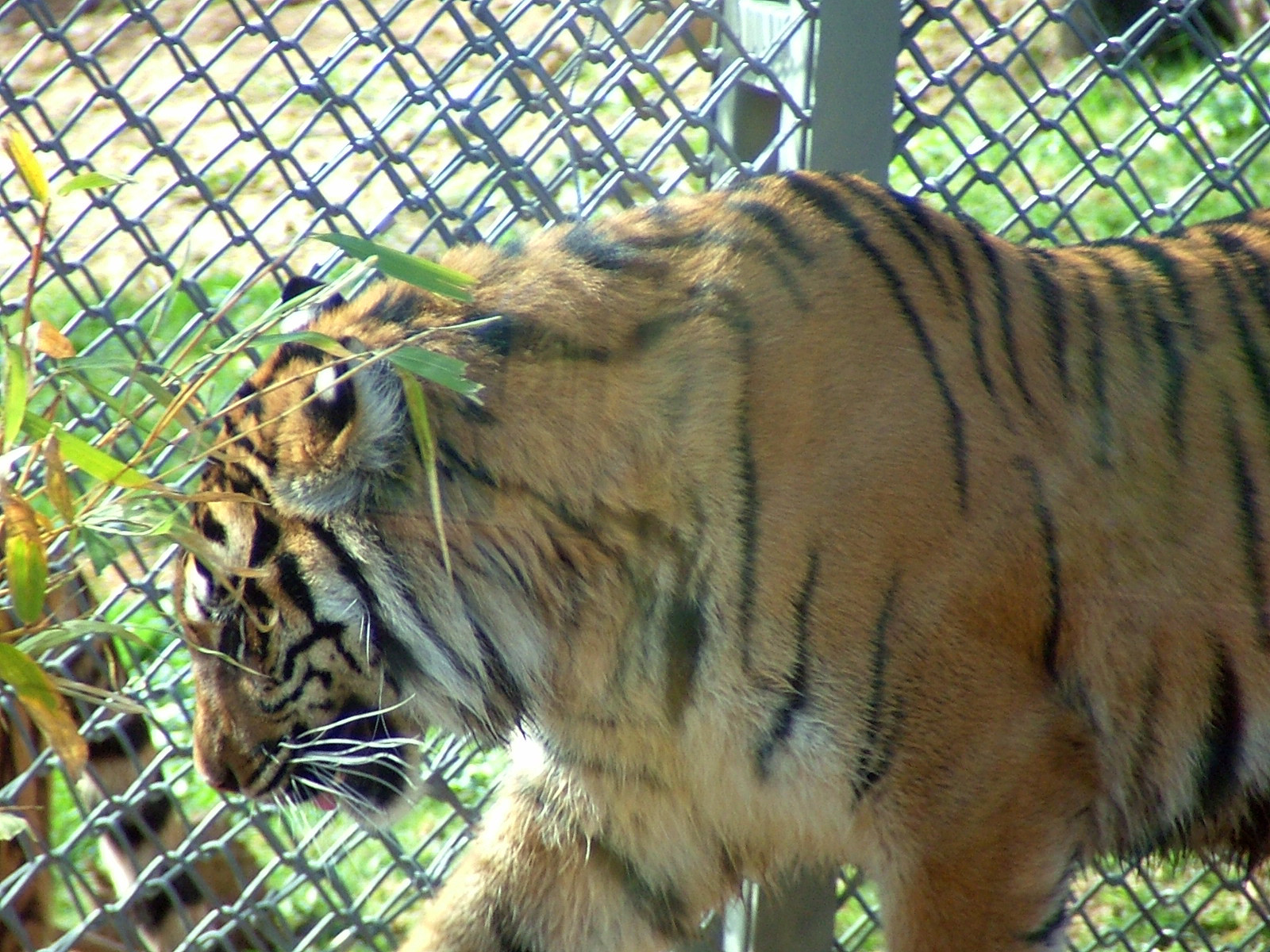 A Sumatran Tiger (Panthera tigris sumatrae) at the Jerusalem Biblical Zoo.